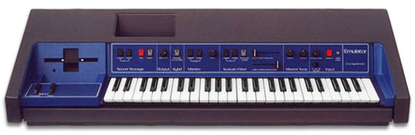 E-mu Emulator